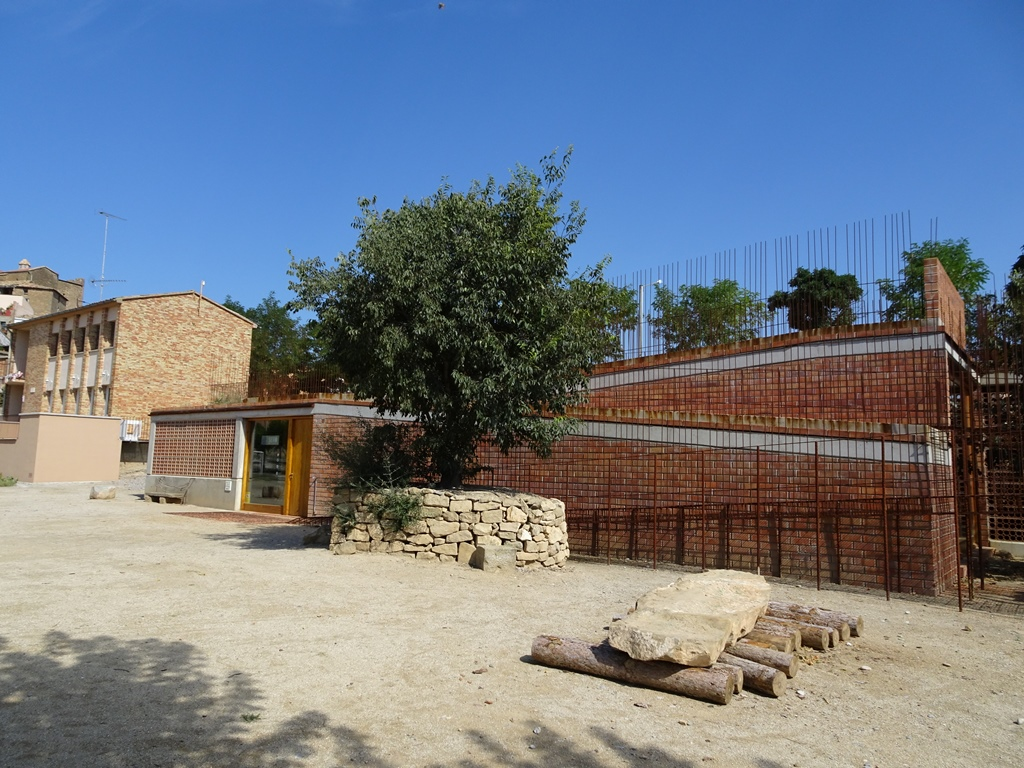 EspaiTransmissorSero1